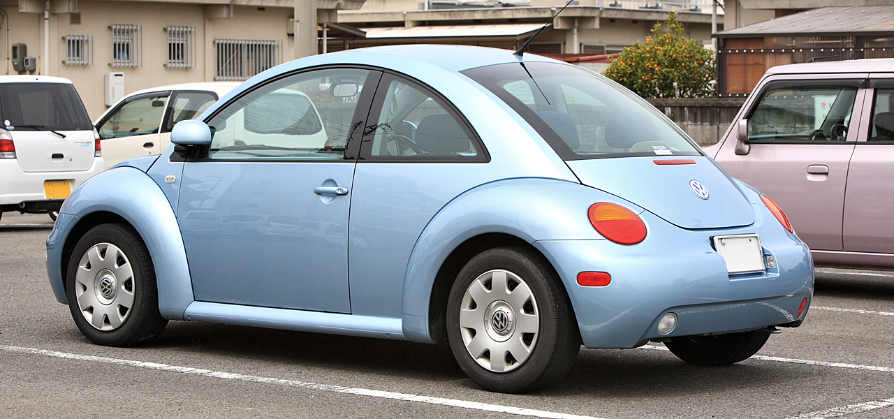 Volkswagen New Beetle